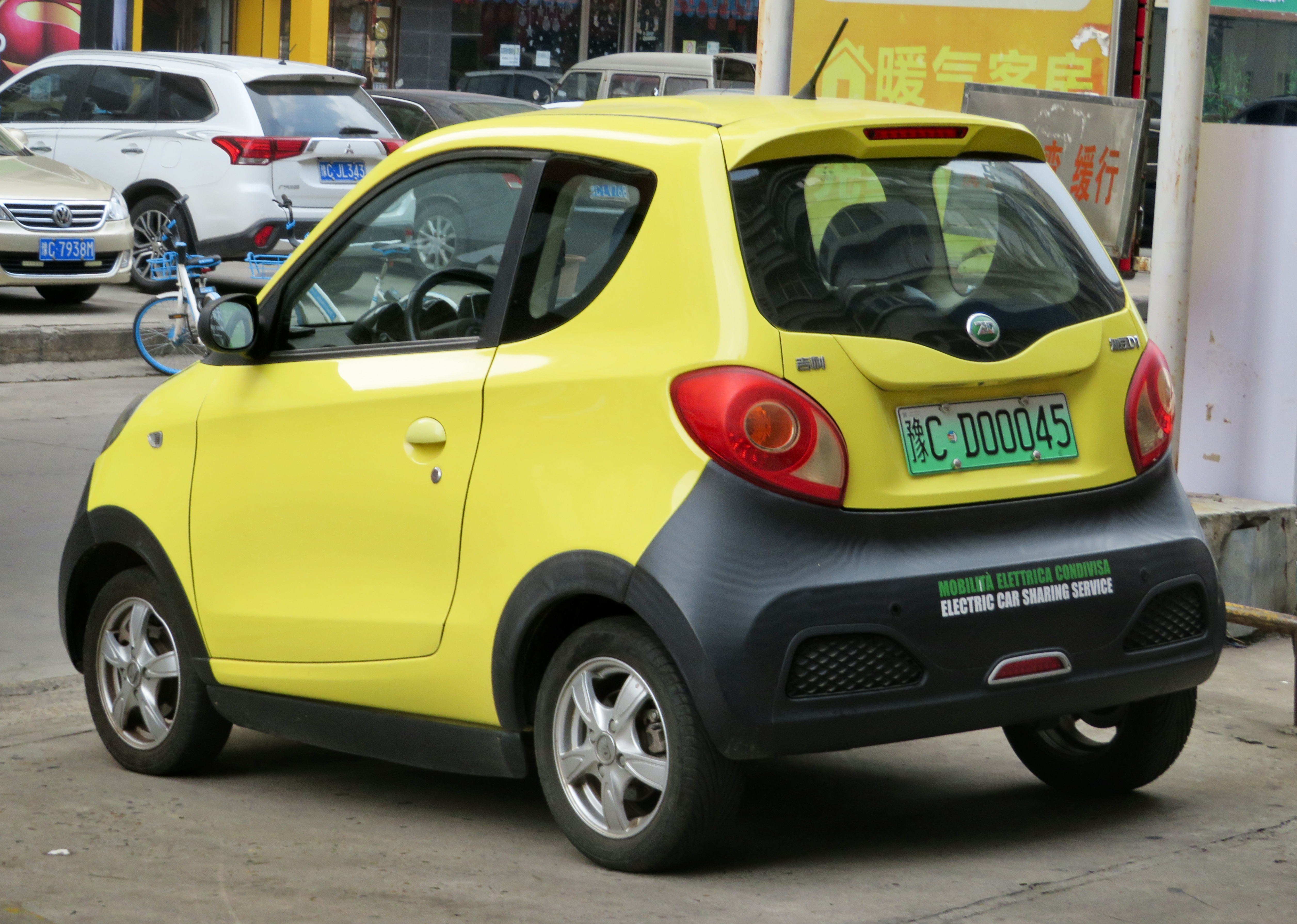 A 2016 Geely-Zhidou D1 photographed in Xigong District, Luoyang, Henan province, China